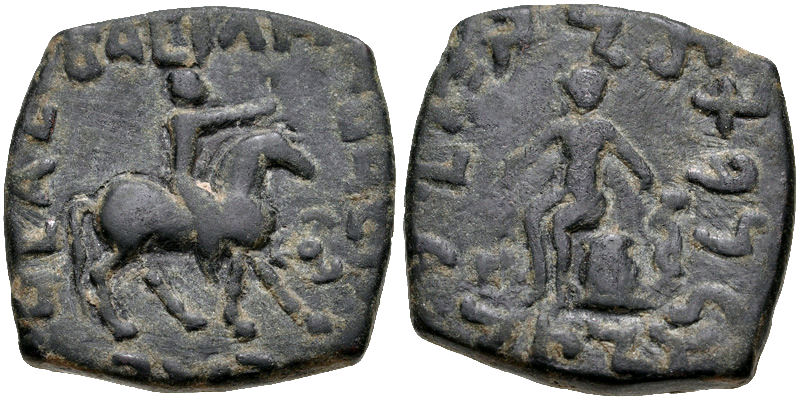 Hajatria Northern Satrap